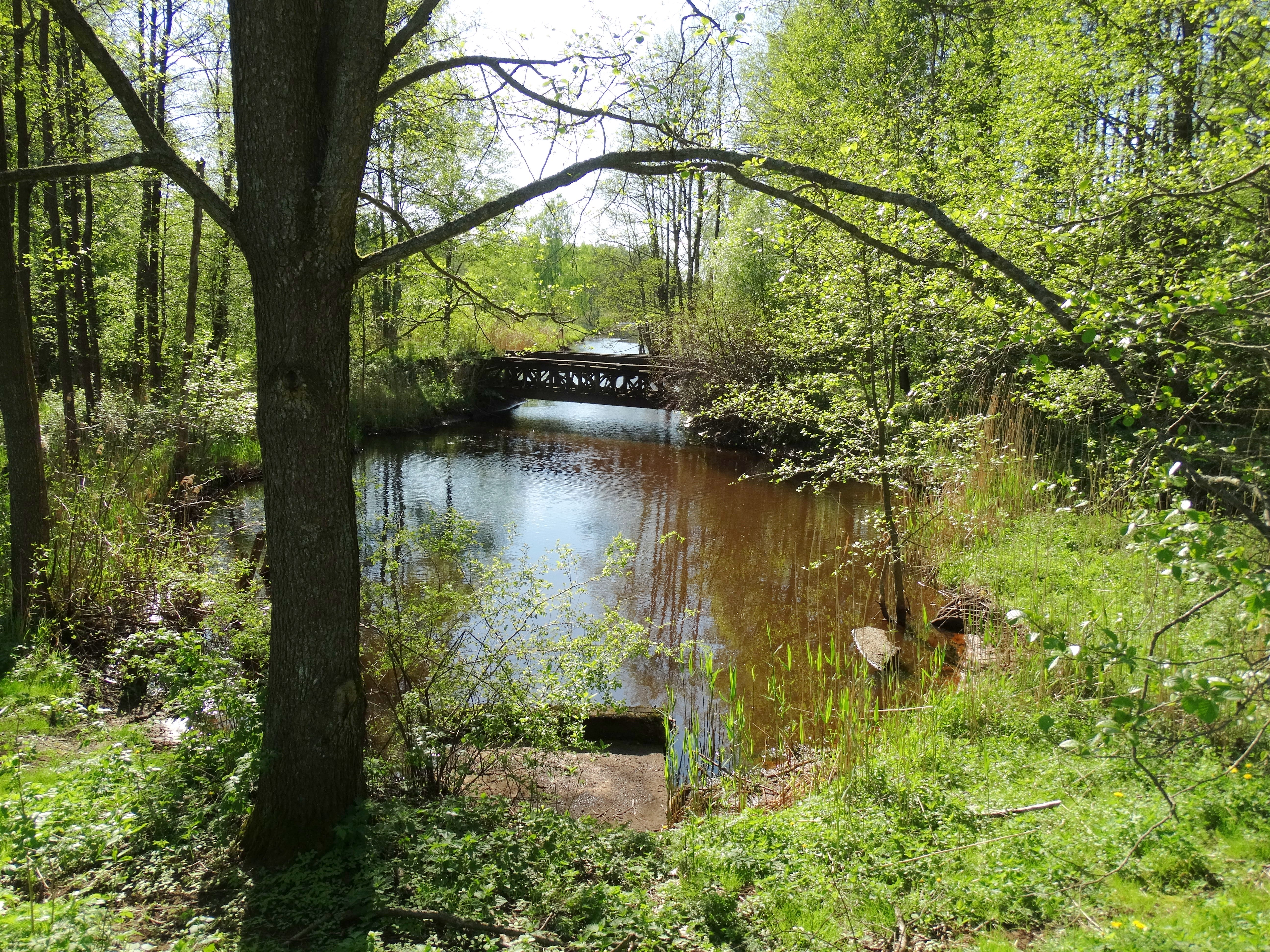 Judrė River near Gulioniškė pond, Kazlų Rūda municipality, Lithuania